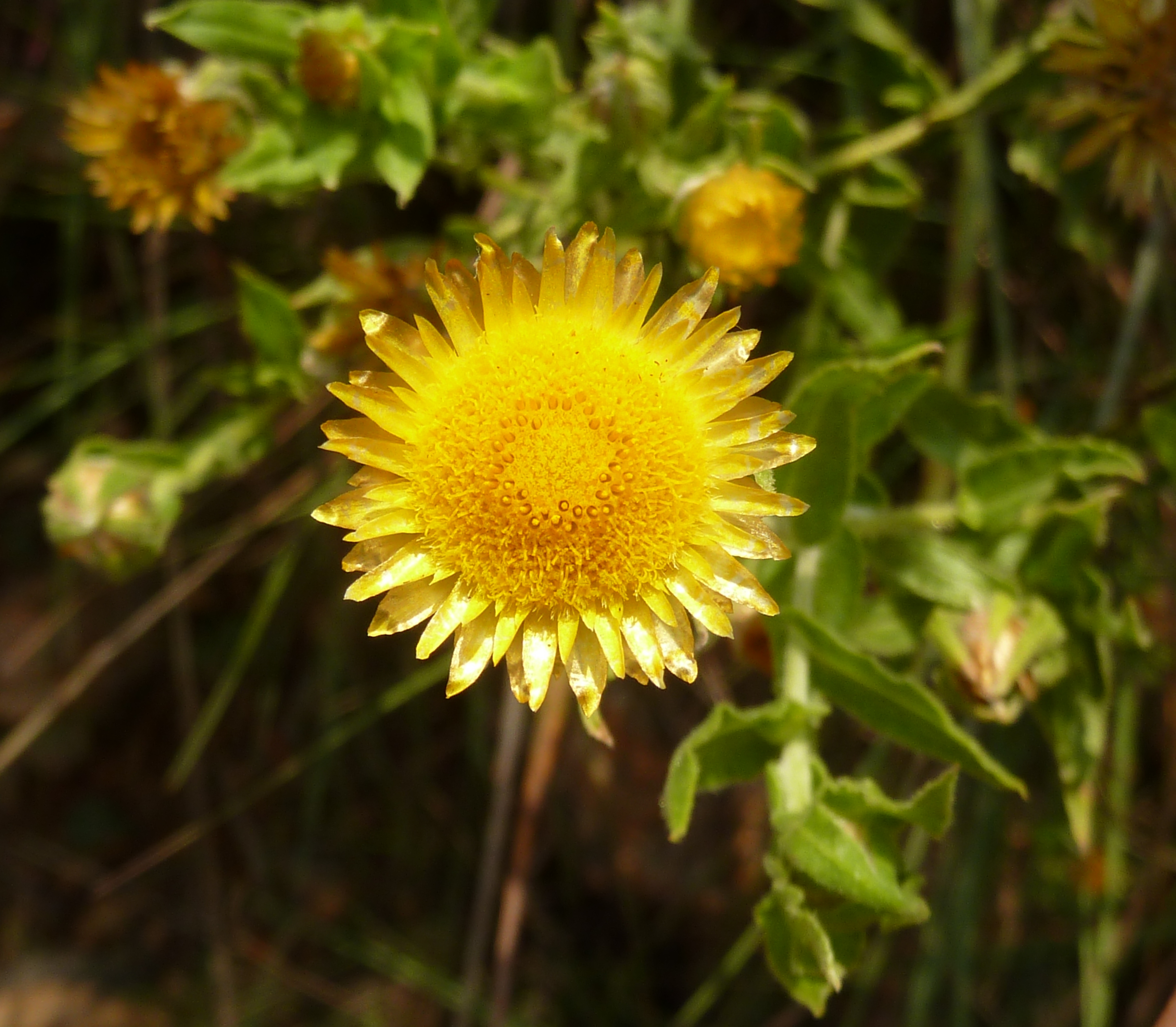 Flower head of a Golden one-headed everlasting (Helichrysum aureum var. monocephalum) in Groenkloof Nature Reserve